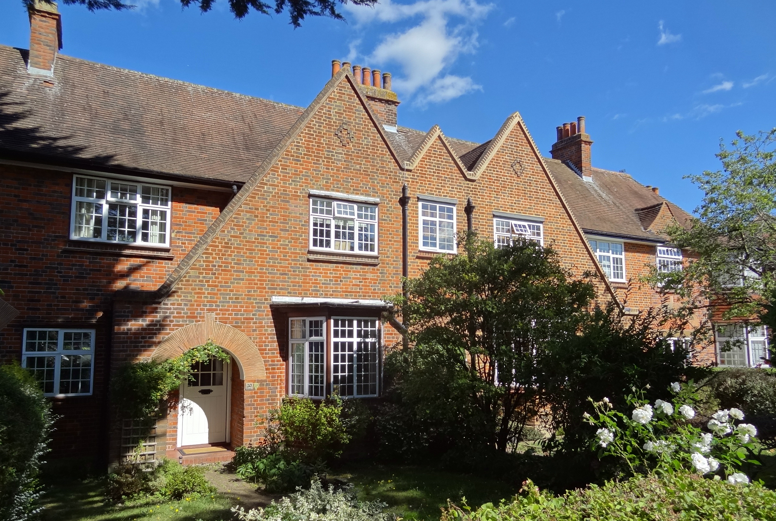 Houses at Woodend built c.1912-1925.